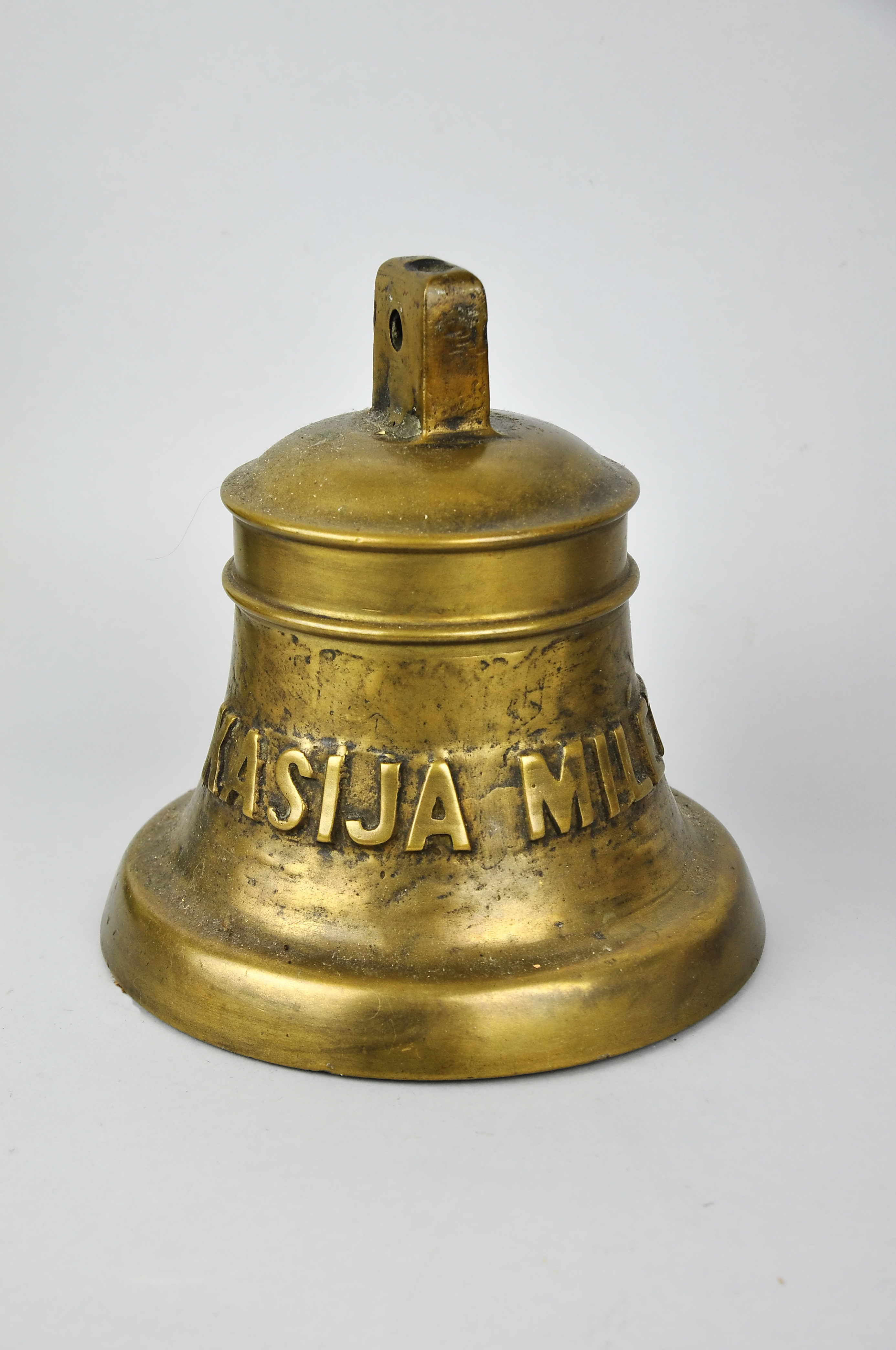 Ship bell on steamboat Kasija Miletić from 1925. year. Now located in Museum of Science and Technology in Belgrade.